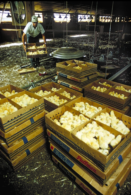 Day-old broiler chicks arrive at a commercial operation raising chickens for meat.